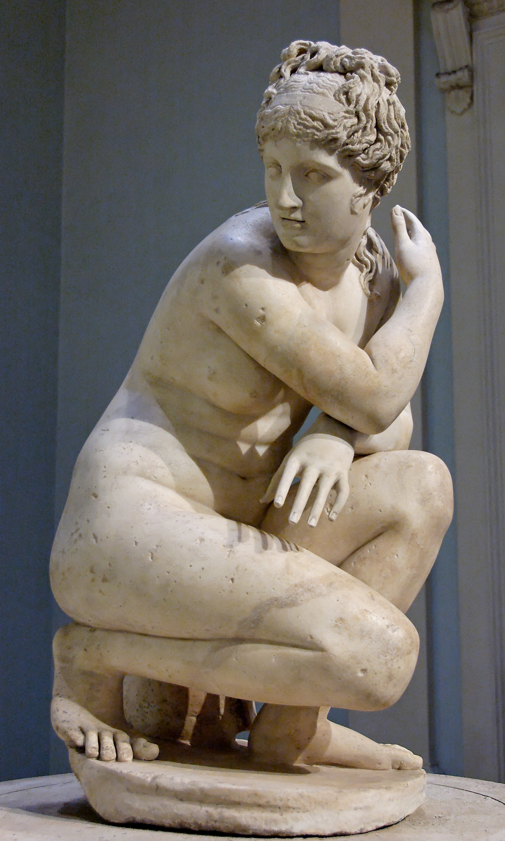 So-called “Lely's Venus”: Aphrodite surprised as she bathes. Roman copy of the Imperial era after an Hellenistic original.